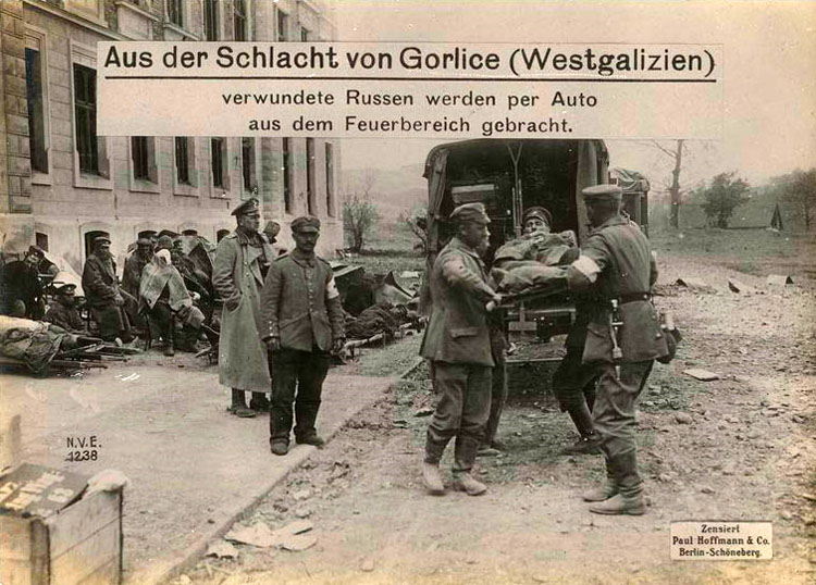 Aus der Schlacht von Gorlice